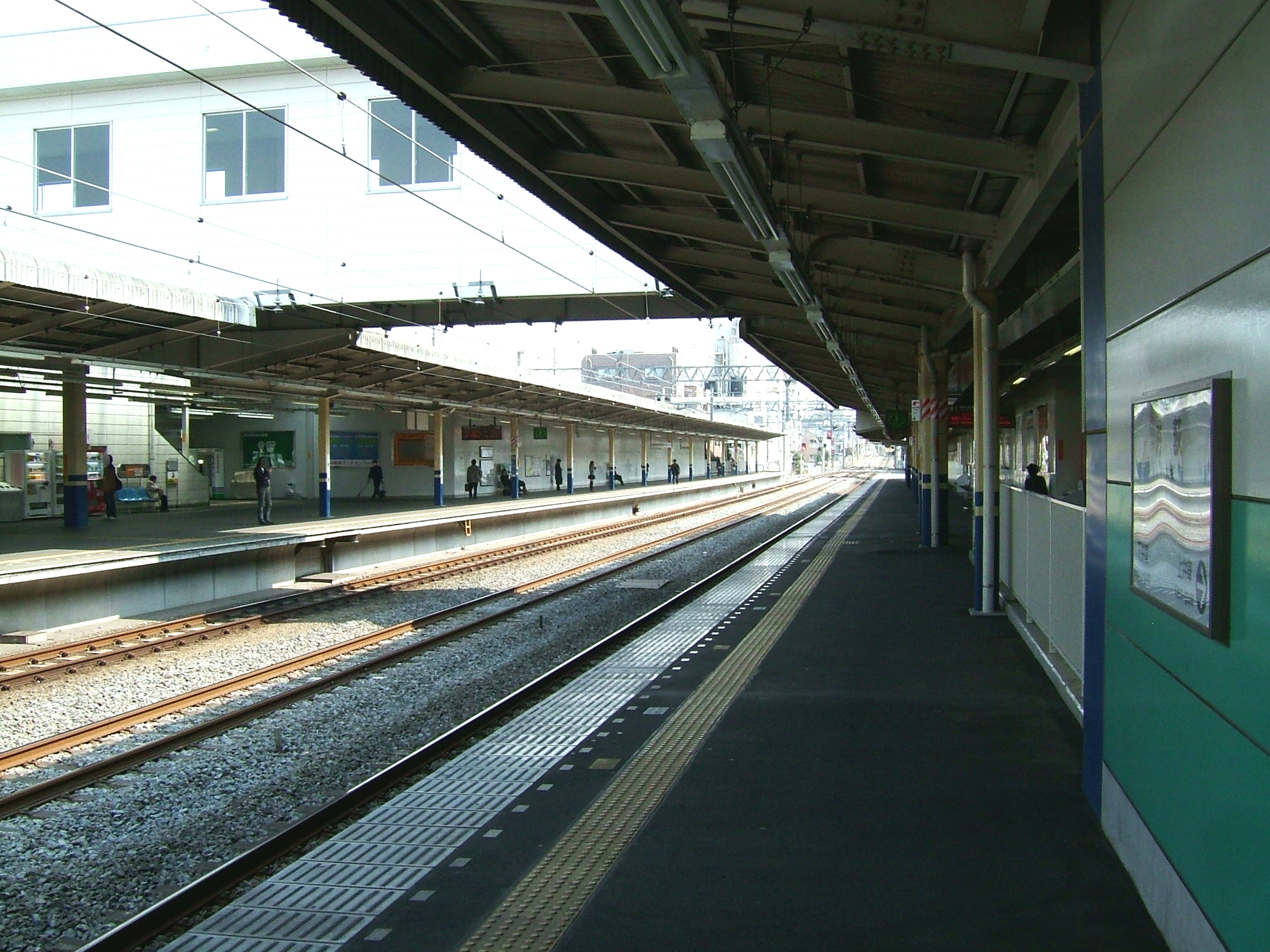 Iogi Station platform (Seibu Shinjuku Line)